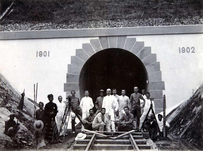 Group portrait of the builders of a railway subway